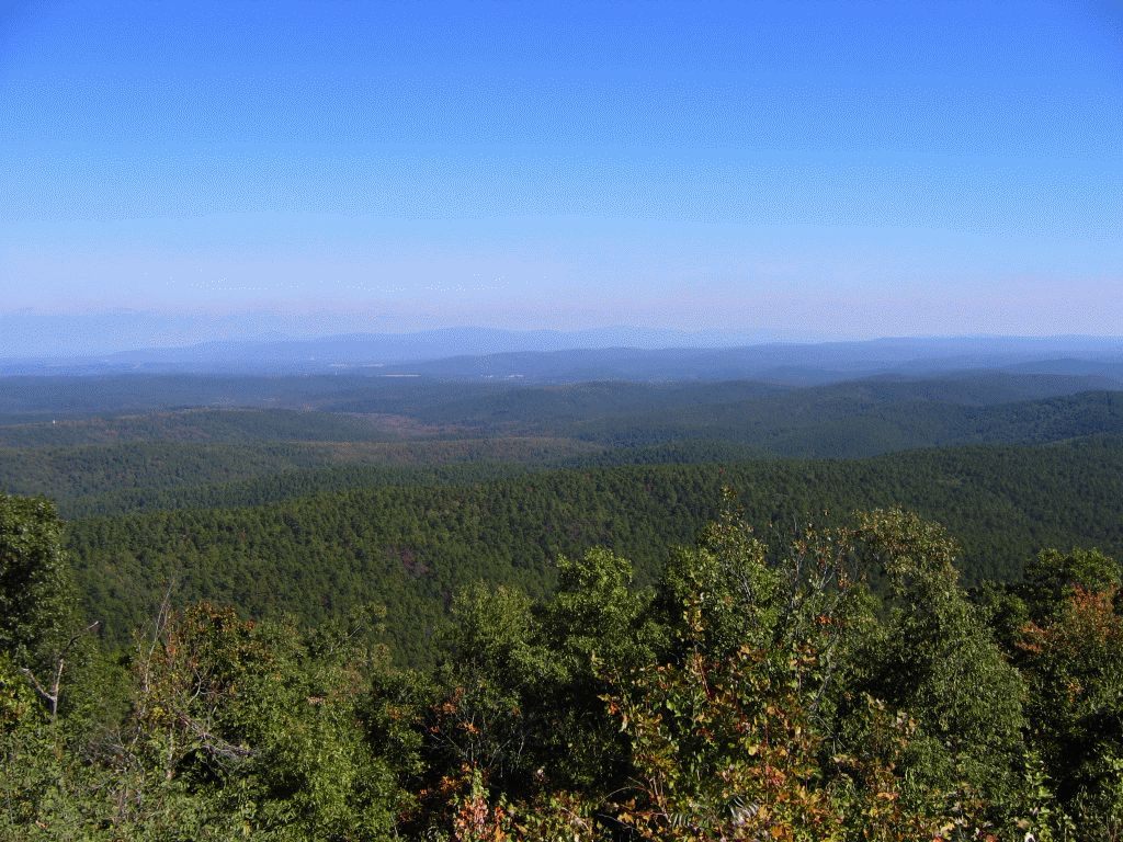 Ouachita National Forest, in Oklahoma, as viewed from atop the Standing Stairs Mountains.